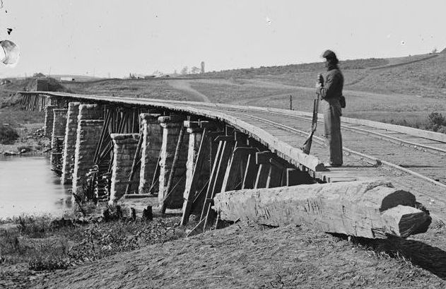 A Union sentry guards the railroad bridge over the Holston River at Strawberry Plains, Tennessee, during the Civil War (cropped from original to show detail of bridge).